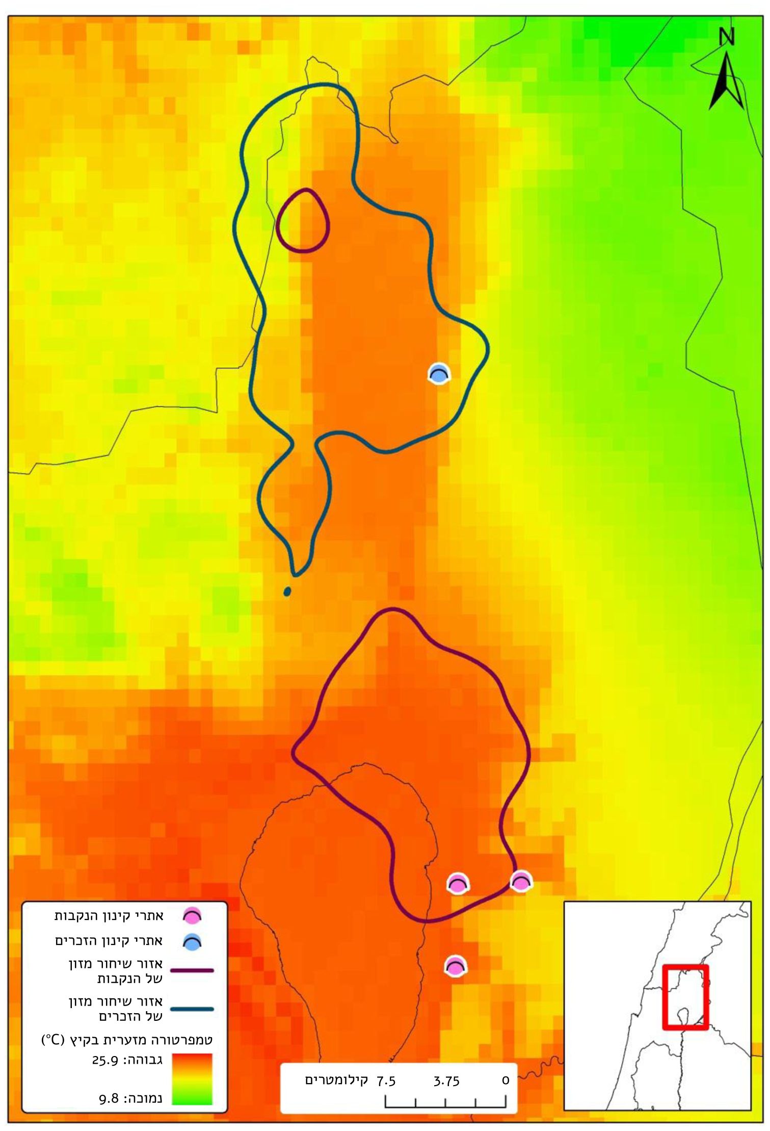 Rhinopoma microphyllum Male and female summer roosting locations, 90% kernel and roaming regions (blue = males' red = females) against a summer minimum temperature background. The small female foraging site in the middle of the males' region represents only one female – Da (see original paper).